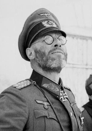 Battle of Cholm, Soviet Union, german General Theodor Scherer (left) and an unknown german officer standing in front of a building. Please note: Date January 1942 seems to be not correct, because General Scherer is carrying the Knight's Cross, which was lent to him at the end of February same year. Concerning the date of the foto it might be better to say: early 1942.